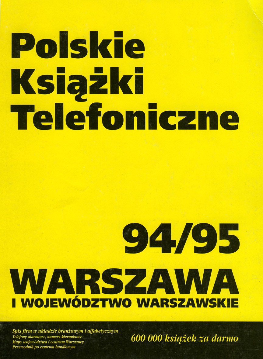 Cover of the first Polish Phone Book